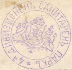 4th_Division_Sanitary_Park Seal